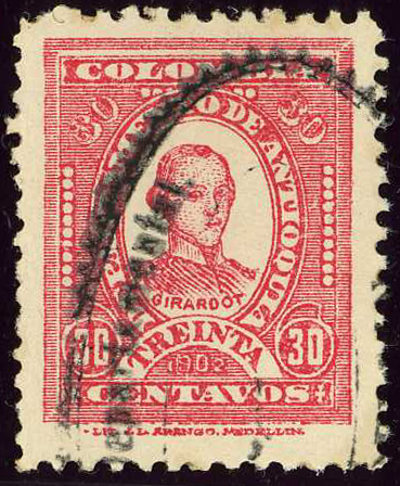 30 centavos Antioquia issue 1902, oval cancel. Michel N°135, Yvert N°126.